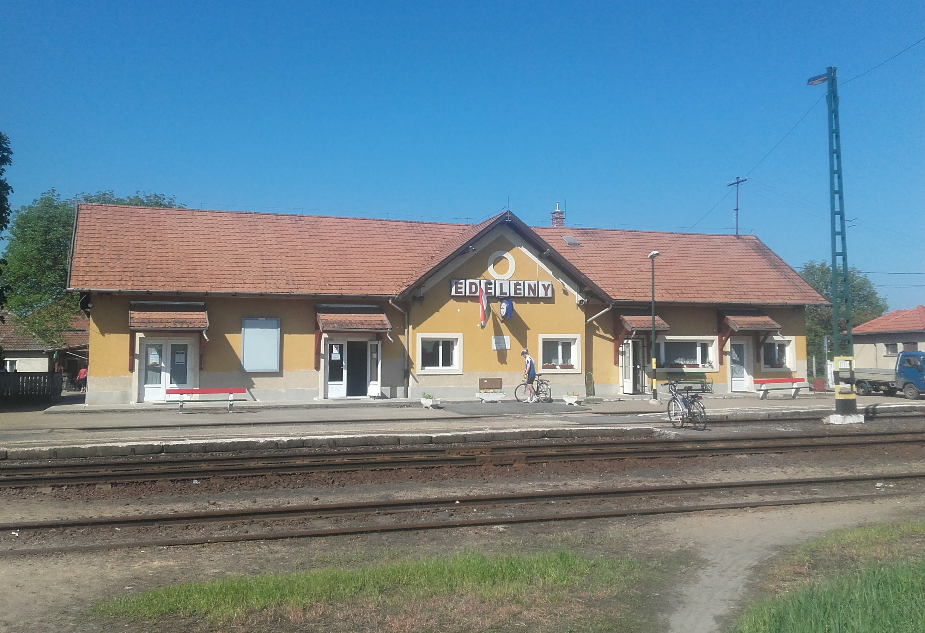 Train station in Edelény, Hungary, on a route from Miskolc.